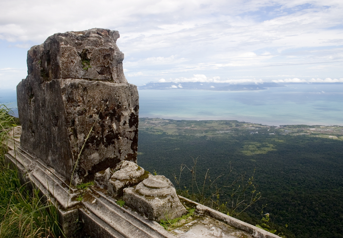 Looking back to Kampot from Phnom Bokor